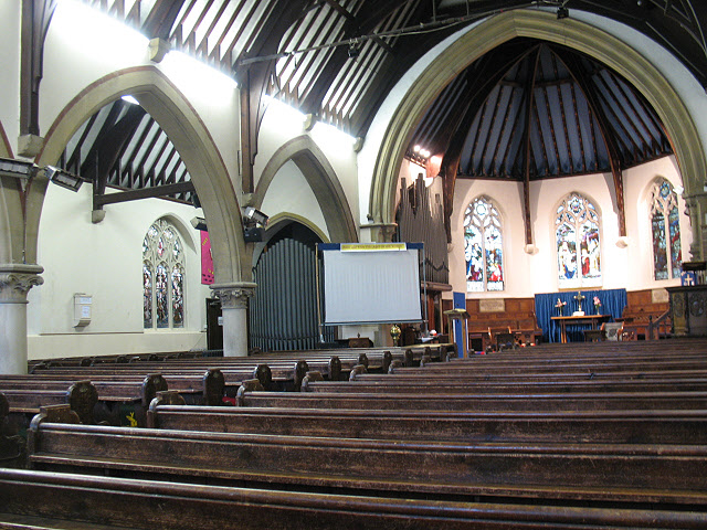 Holy Trinity Church, Wallington: interior (1) The nave, looking eastwards. For an external view see 1221264.